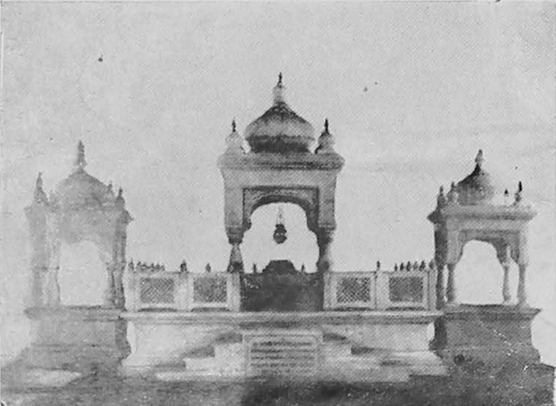 The Samadhi (Cenotaph) at Ambavde of Shri Shankaraji Narayan (died 1712 AD), the Founder of the Bhor State. Remodelled in marble by Shrimant Raja Saheb, Raghunathrao Shankarrao Pant Sachiv, in 1934.